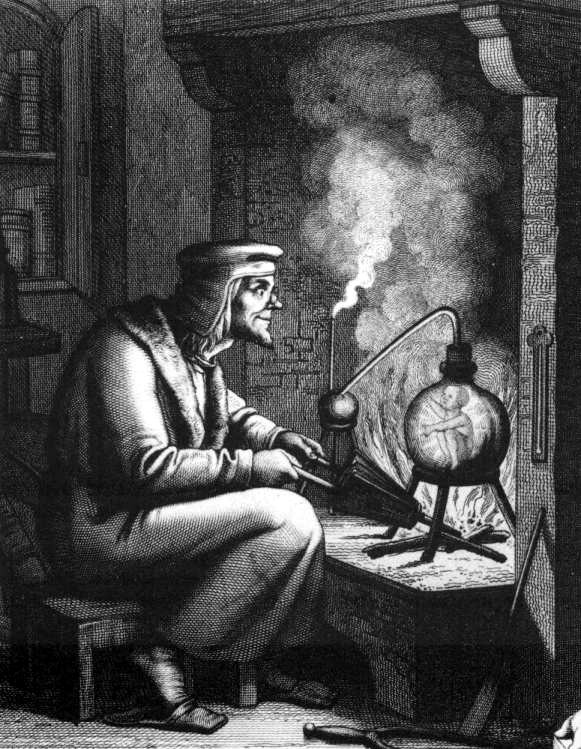 19th century engraving of Homunculus from Goethe's Faust part II